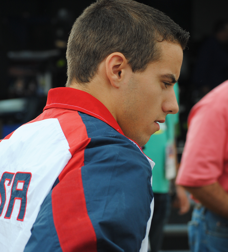 Jake Dalton at the Olimpics